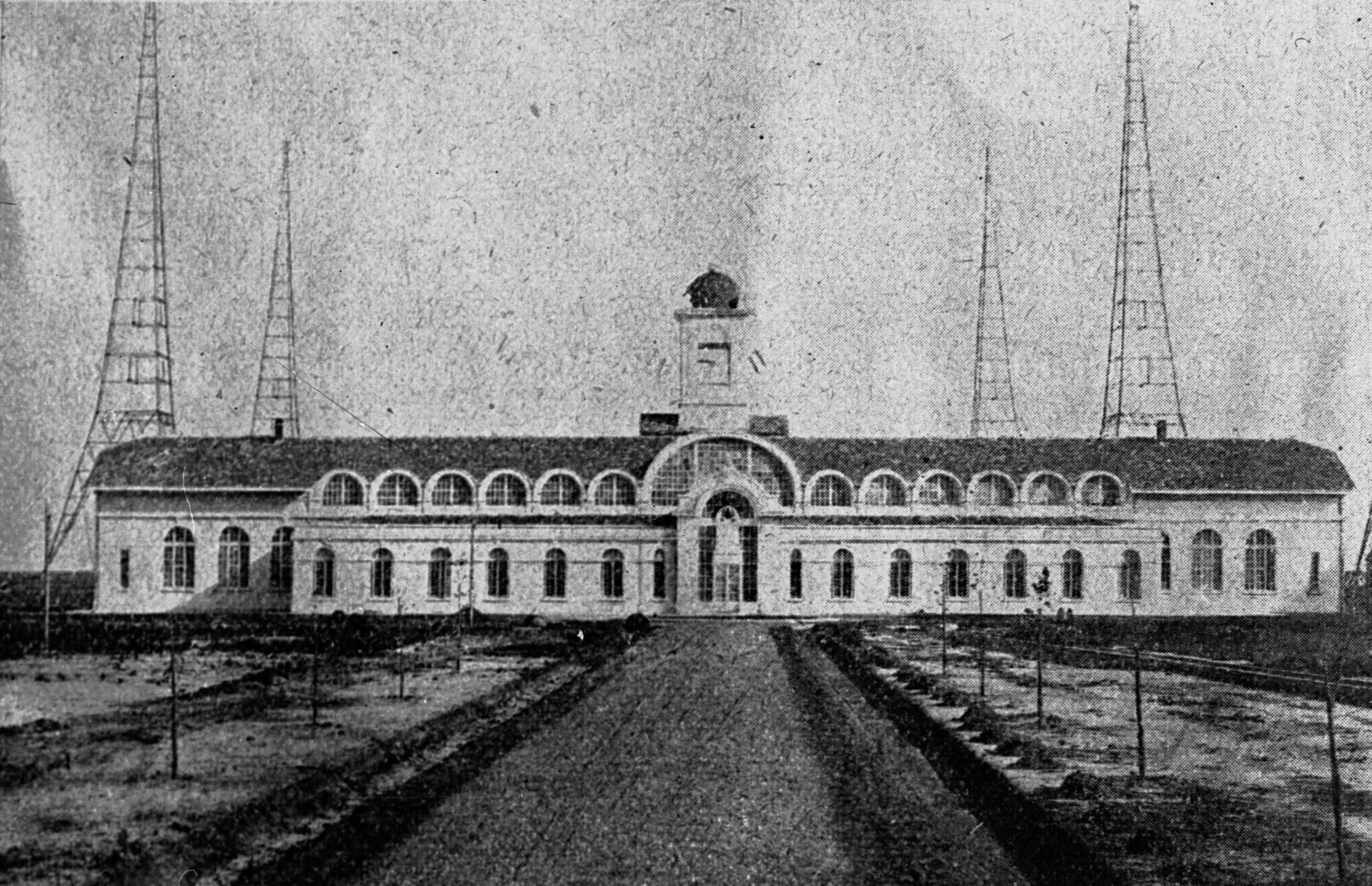 See also 3570.